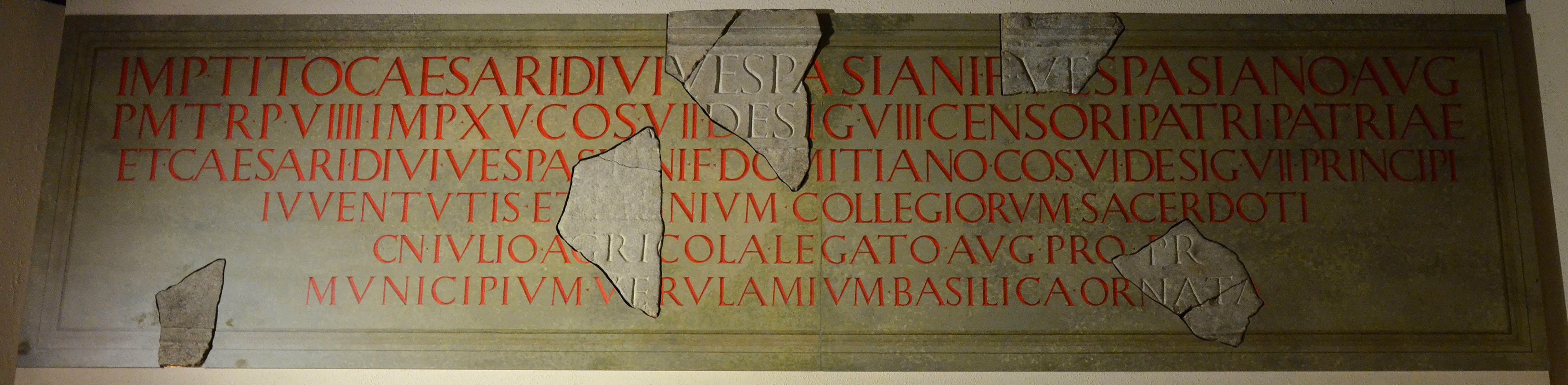 The Verulamium Forum Inscription (tentatively dated to AD 79, during the reign of the emperor Titus) is one of the many Roman inscriptions in Britain. It has been reconstructed as a large dedication slab (approx. 4.3m x 1.0m) from eight small fragments found in 1955 during construction work in the yard of St Michael's School, St Albans. The find-spot lay near the north-east entrance to the forum and basilica of Verulamium (modern St Albans). The inscription is notable because it mentions Gnaeus Julius Agricola, the Roman governor of Britain from AD 77-84, who is otherwise known from a biography written by his son in law Tacitus.